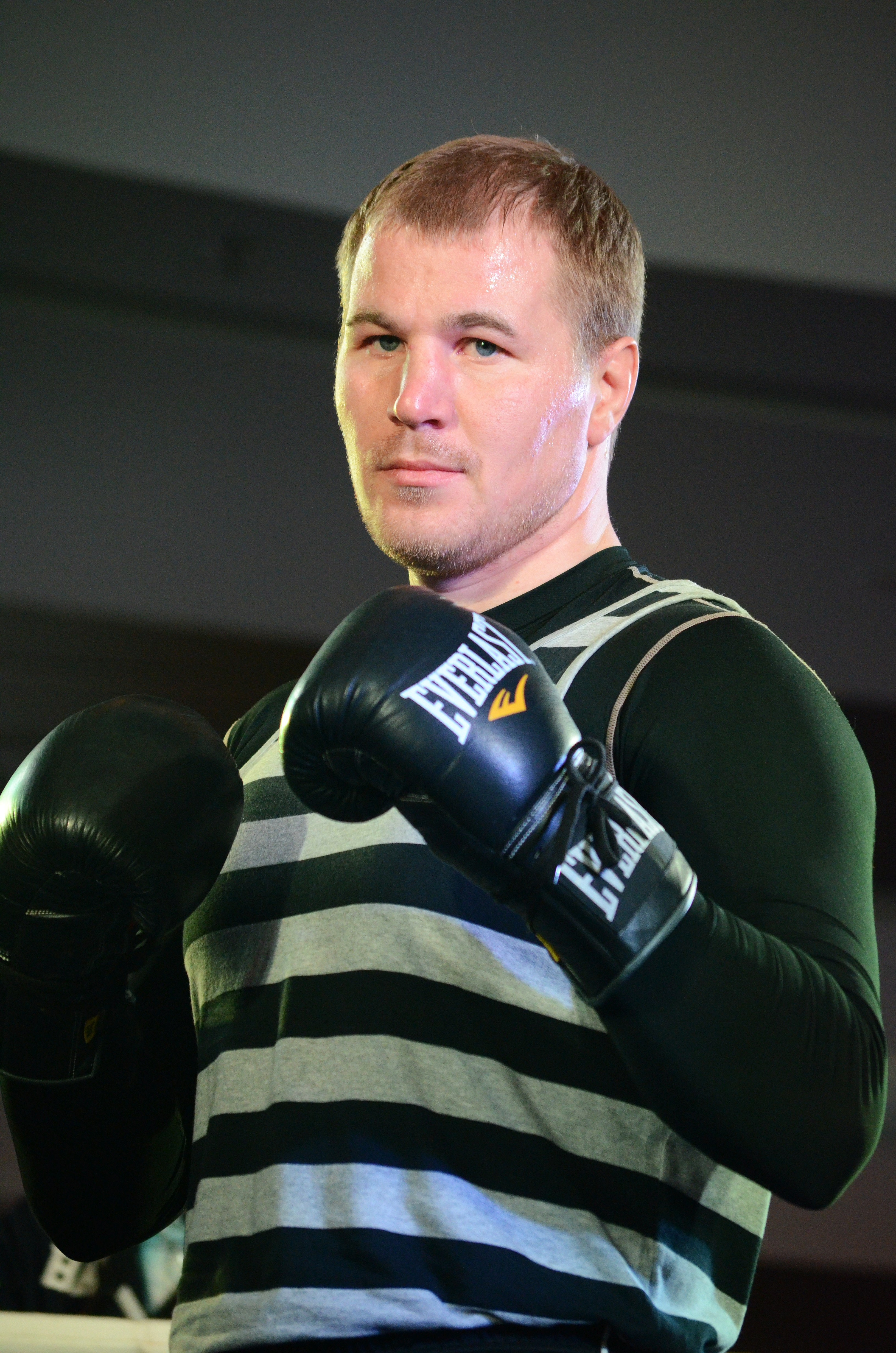 Cruiserweight boxing champion of Russia during an open training prior to his fight with Oleksandr Usyk, Kyiv, Ukraine.